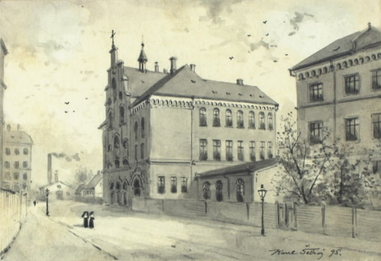 Rosenkranskirken in Boyesgade, Vesterbro, Copenhagen.